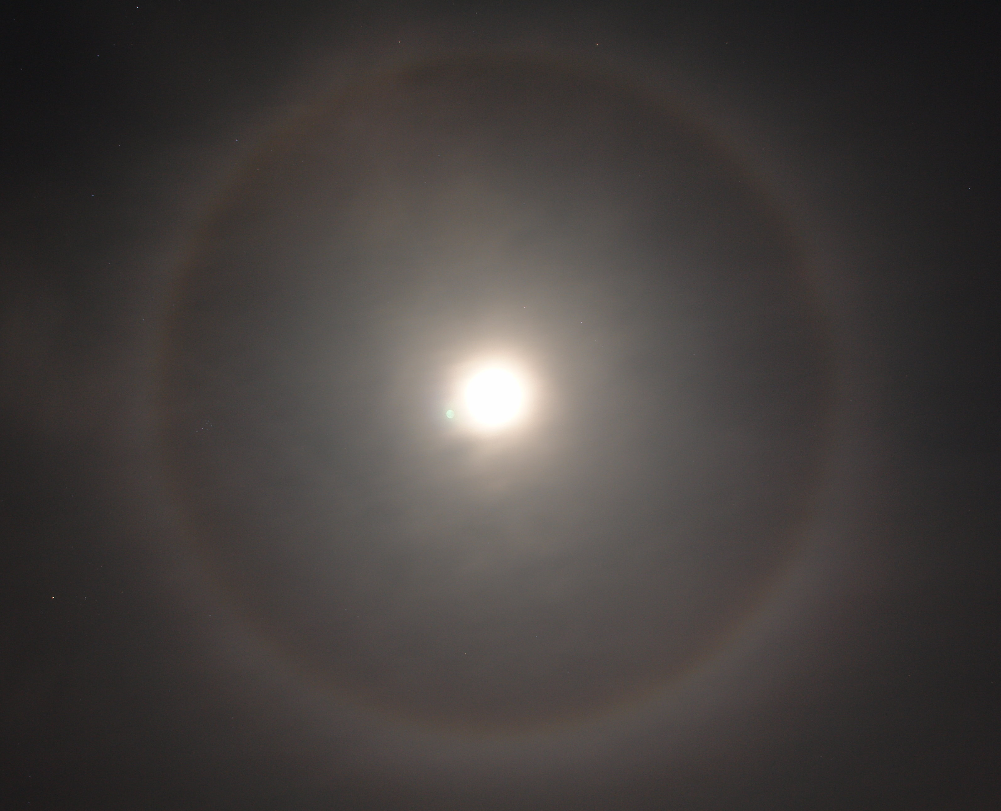 A 22 degree halo around the moon, as seen from Boulder, Colorado